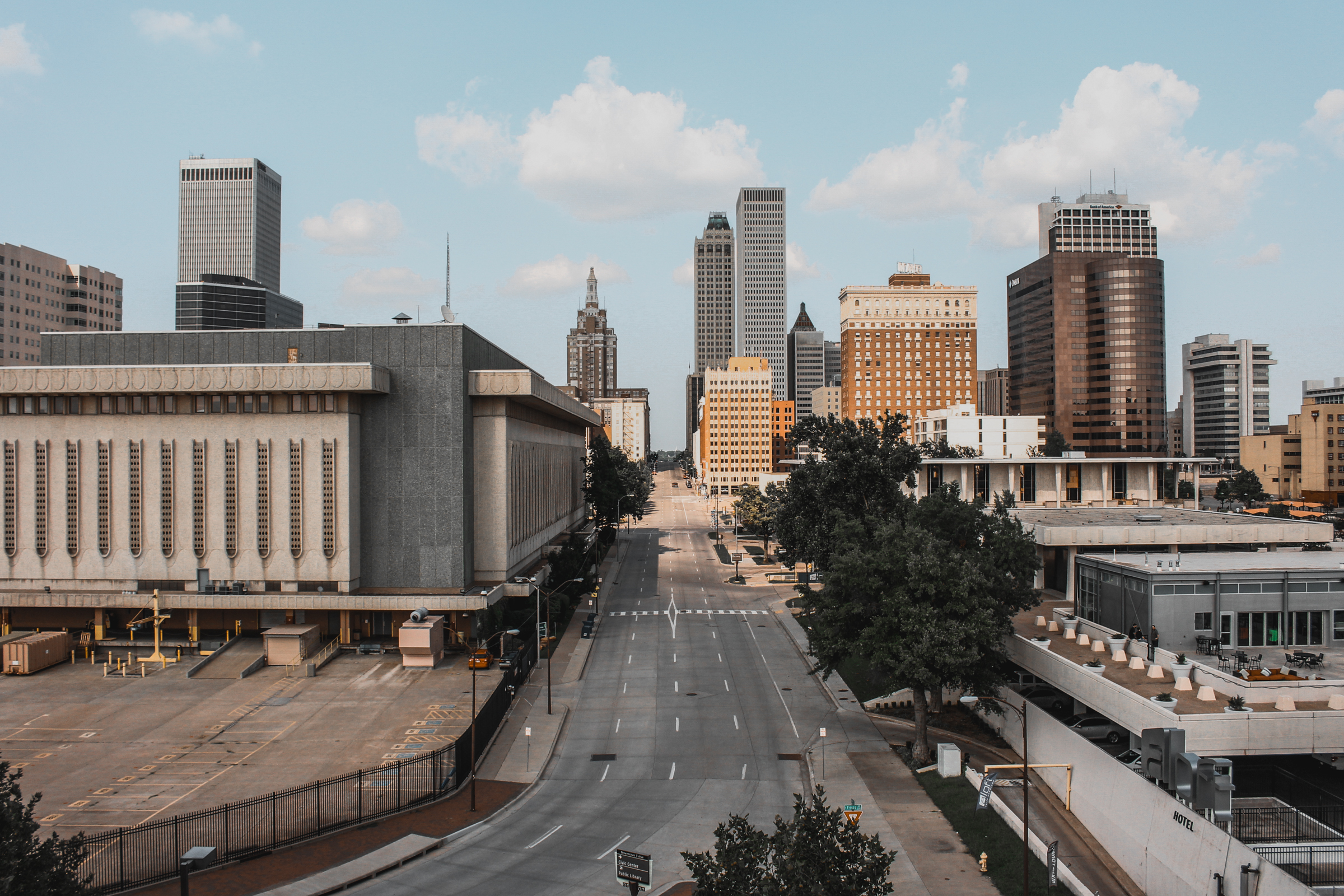 View of downtown Tulsa from the top of the Cox Business Center parking garage.